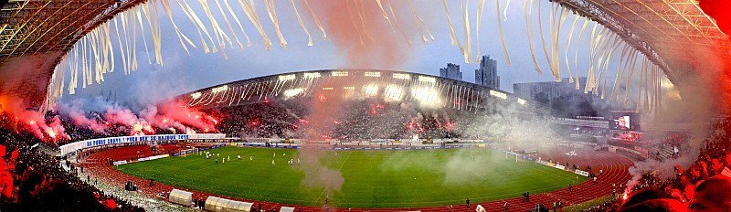 Poljud - 100 years